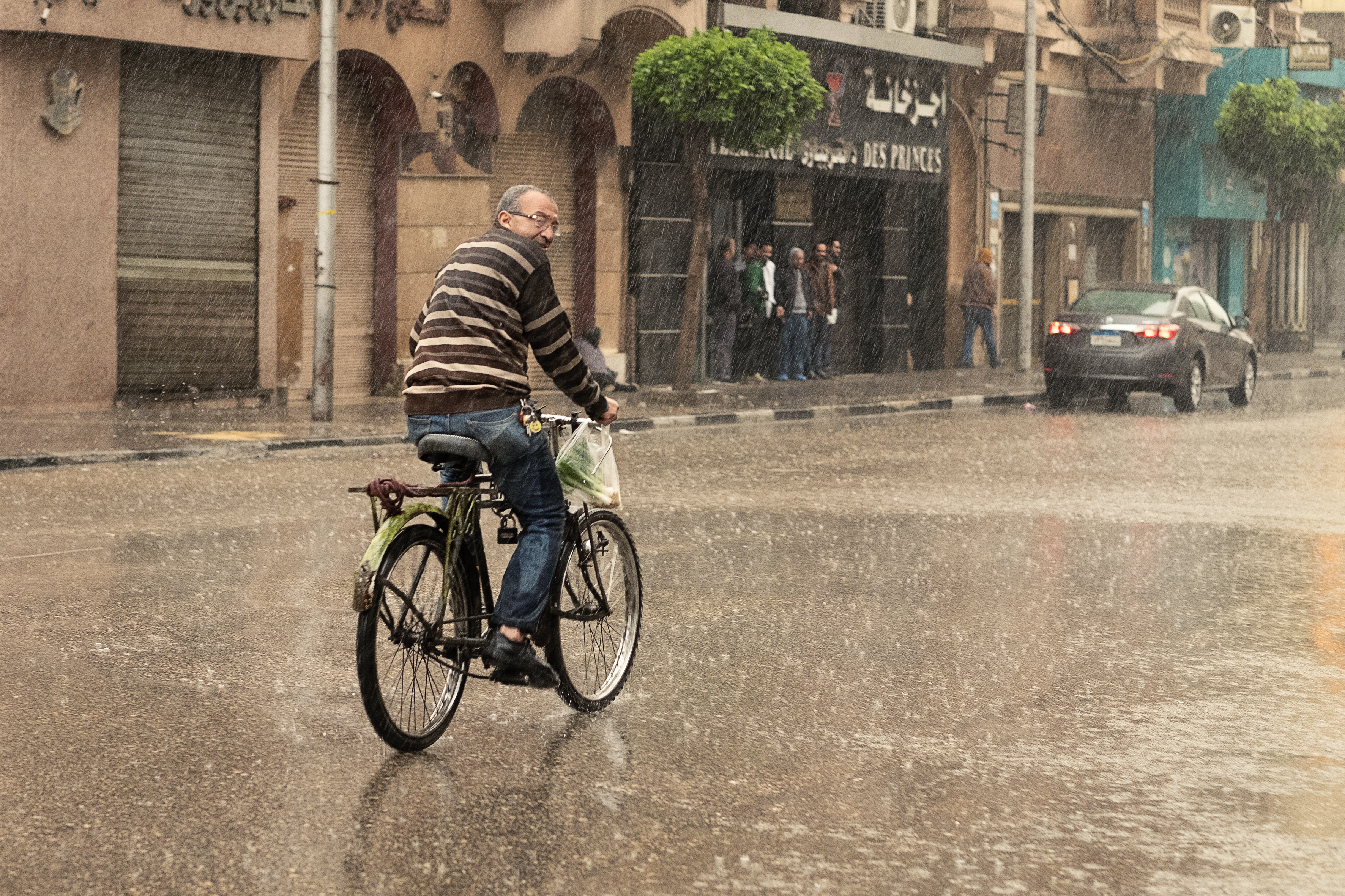 old man back to home bring some food during hard rainy day in cairo This is an image with the theme "Africa on the Move or Transport" from: Egypt